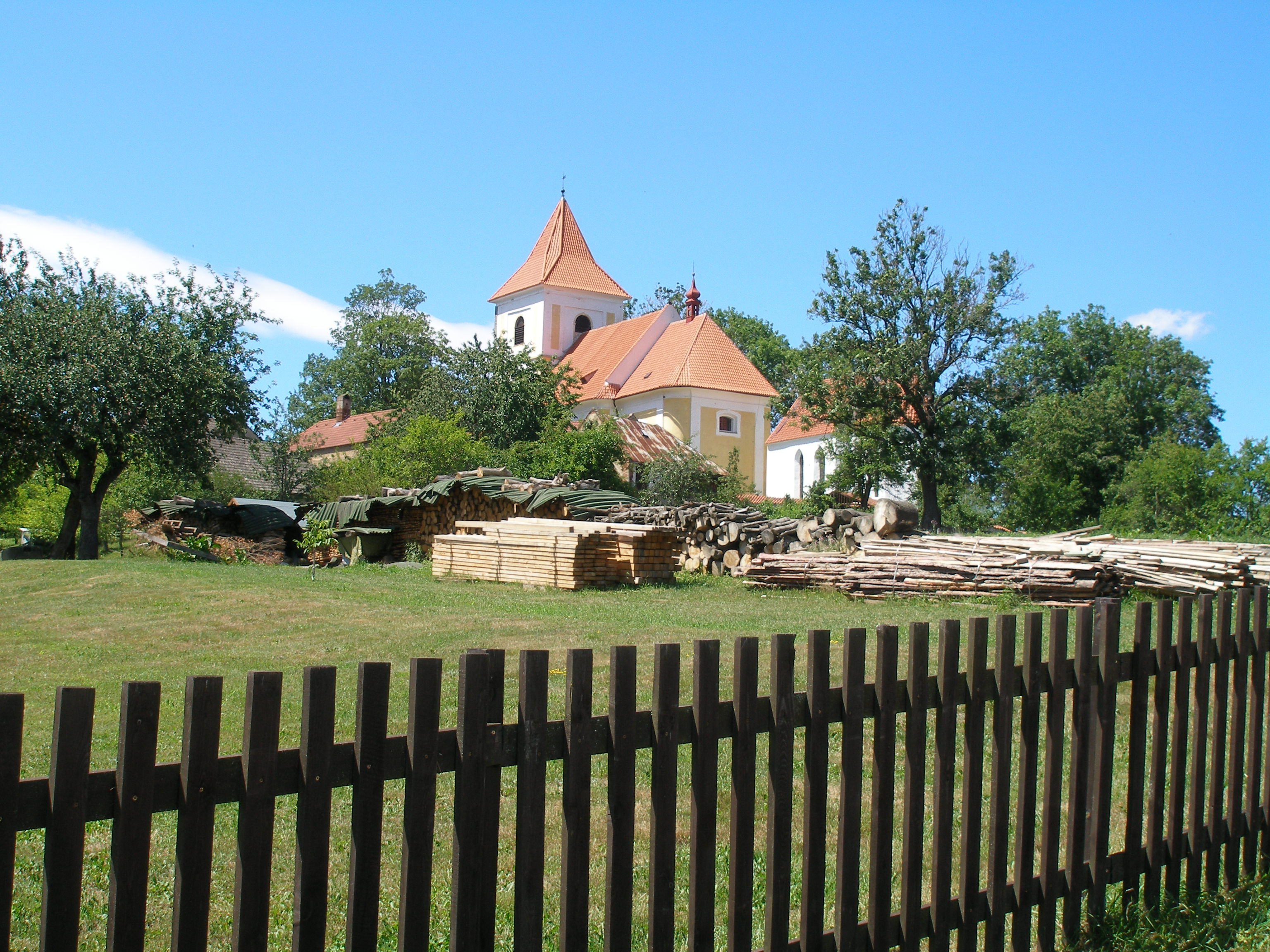 Church and chapel in Svéraz from south-east